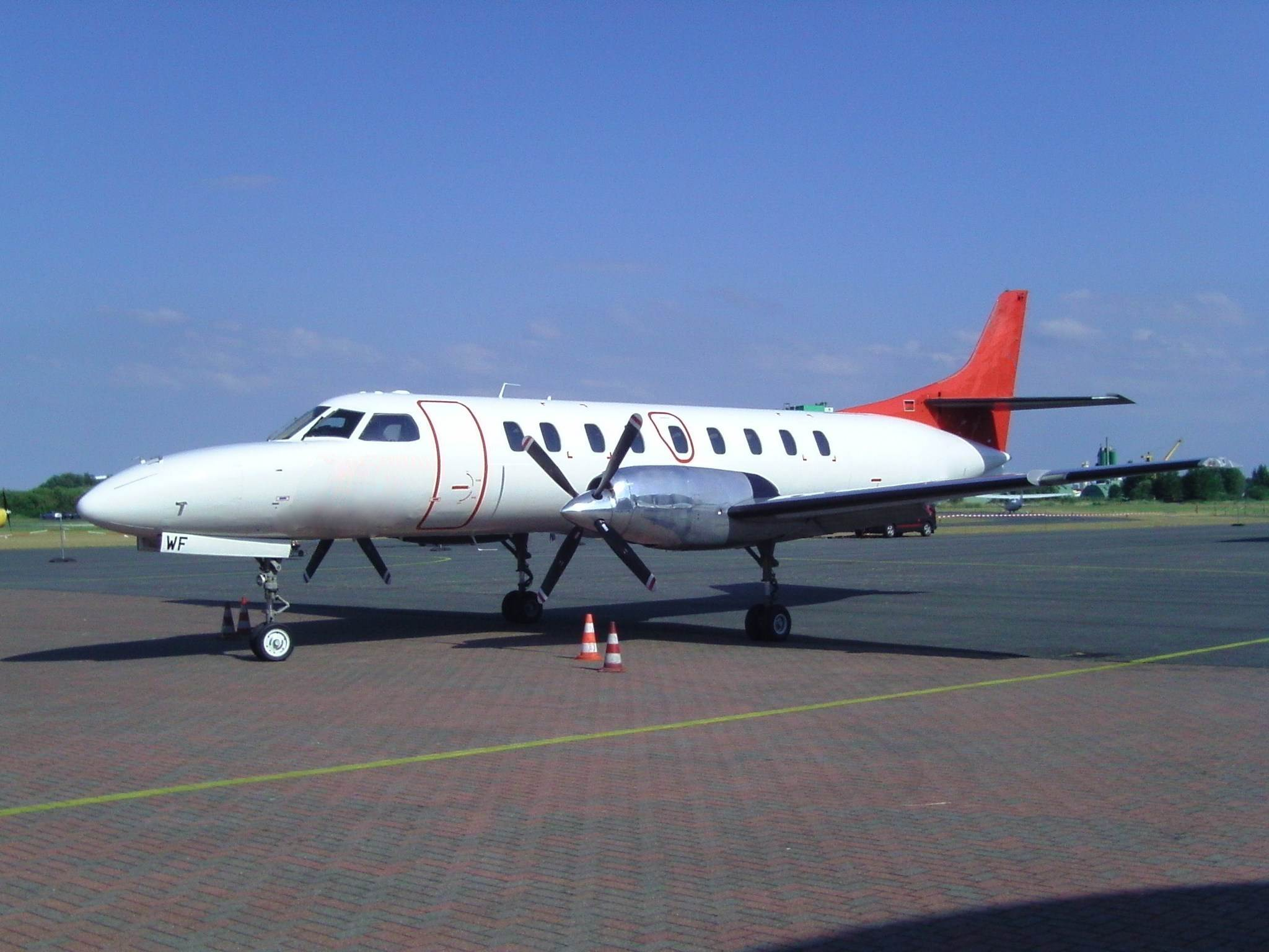 Derivative work, source is public domain. Photo Manipulation of File:Metroliner OLT D-CSWF.jpg - Removed logo and identification from aircraft for use as an example image for an article about an aircrash unrelated to the airline which had the logo on the aircraft.